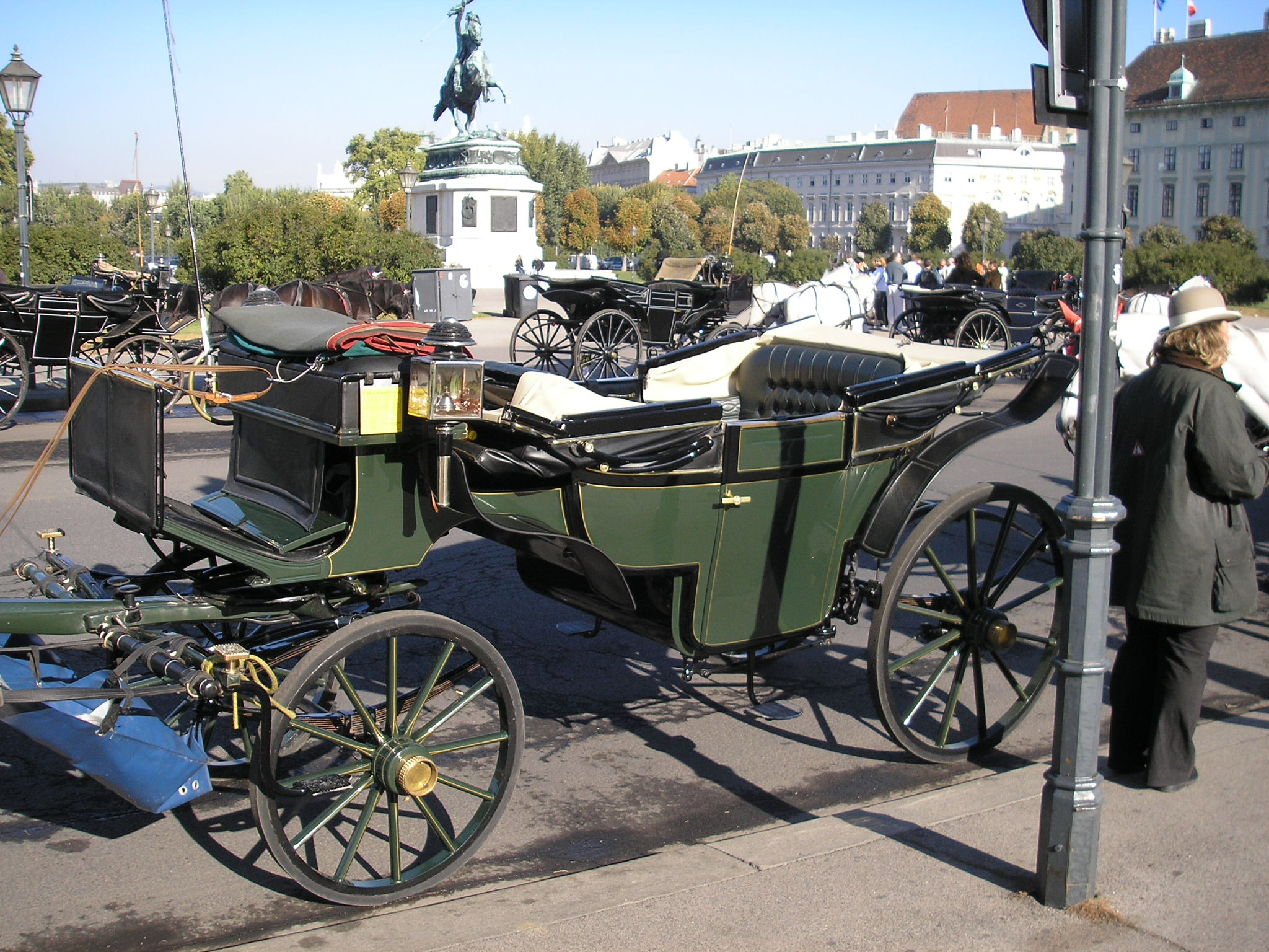 Austria, Vienna, Heldenplatz